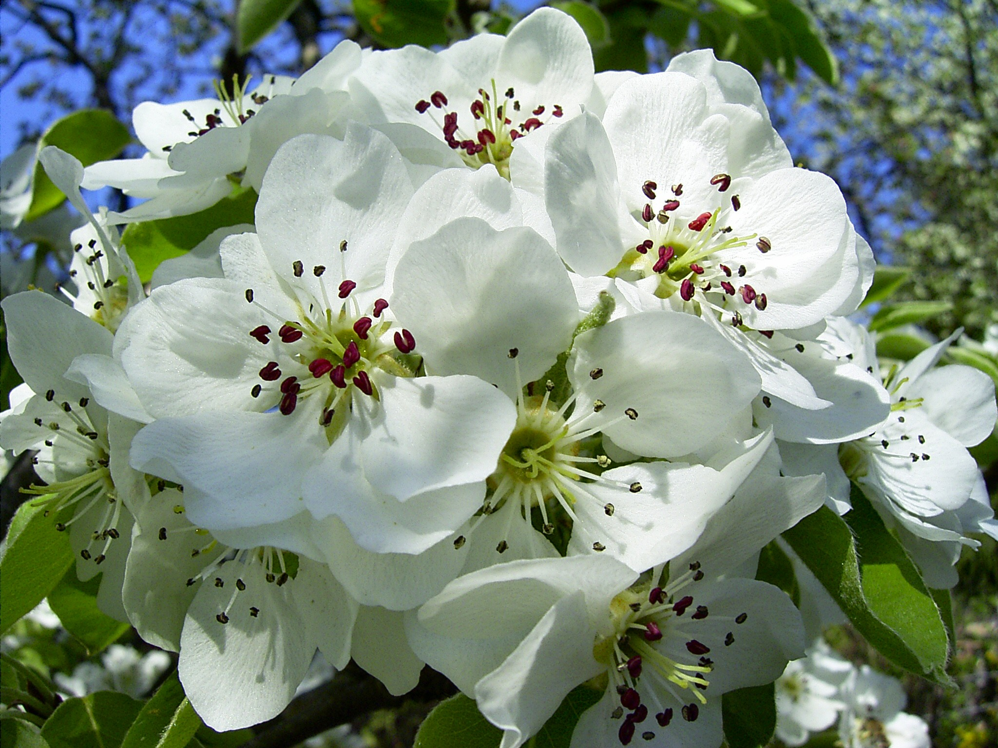 pear blossoms near Berlin, Germany